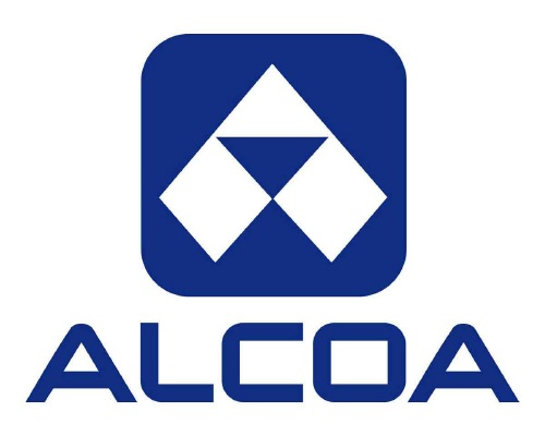 Advancing each generation.